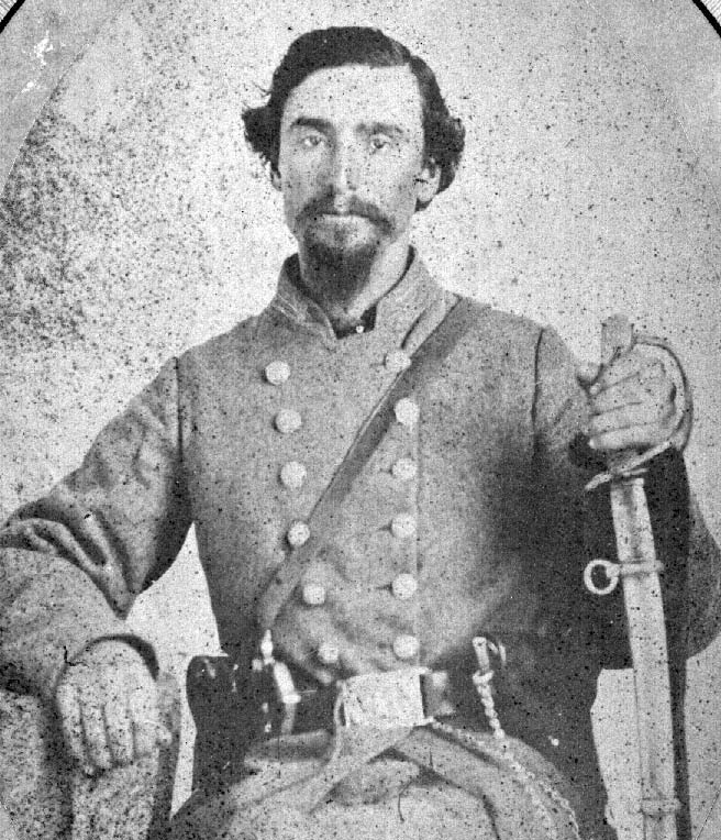 Lt Col Elihu Hutton (1837-1916), Company C, 20th Virginia Cavalry, CSA, 1860s tintype